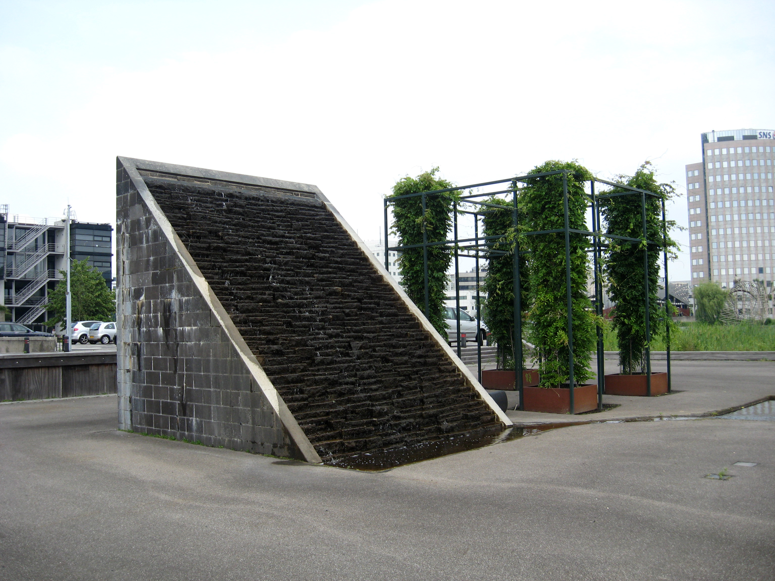 Stream and grow